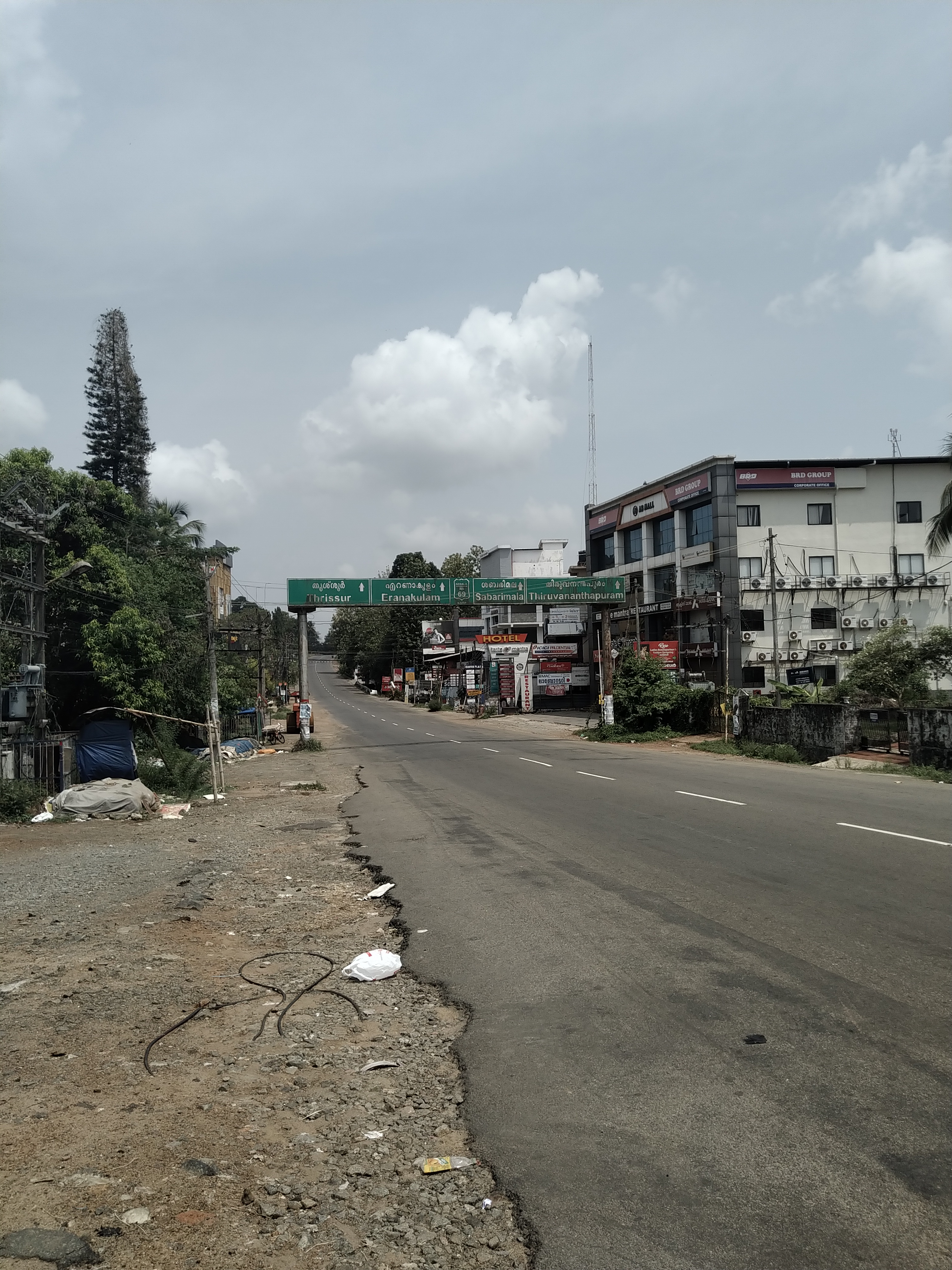 State Highway 69, one of the busiest roads in Kerala (Thrissur-Kozhikode route) is empty during the full COVID-19 lockdown on Sundays in Kerala.